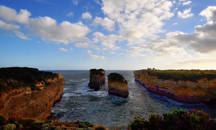 Loch Ard Gorge.